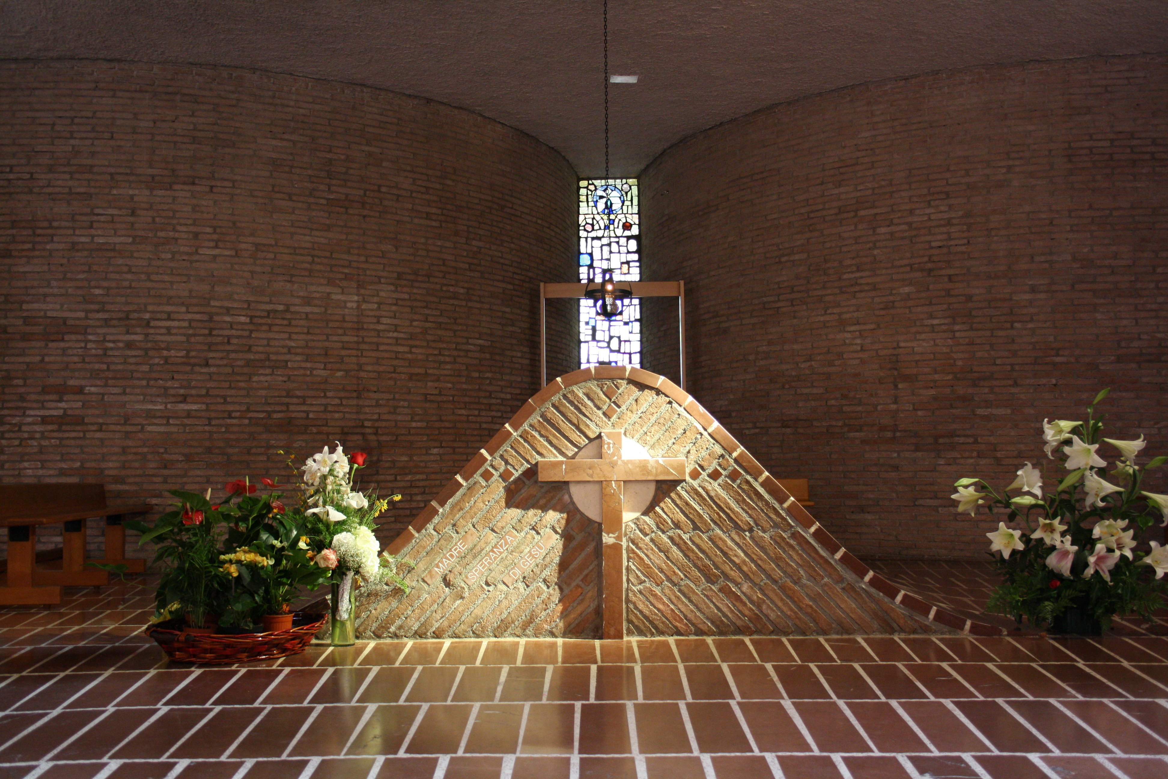 Speranza di Gesù Alhama Valera, Madre Speranza di Gesù grave situated in the Crypt of the Sanctuary Merciful Love.